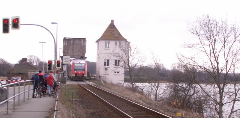 photographed by me